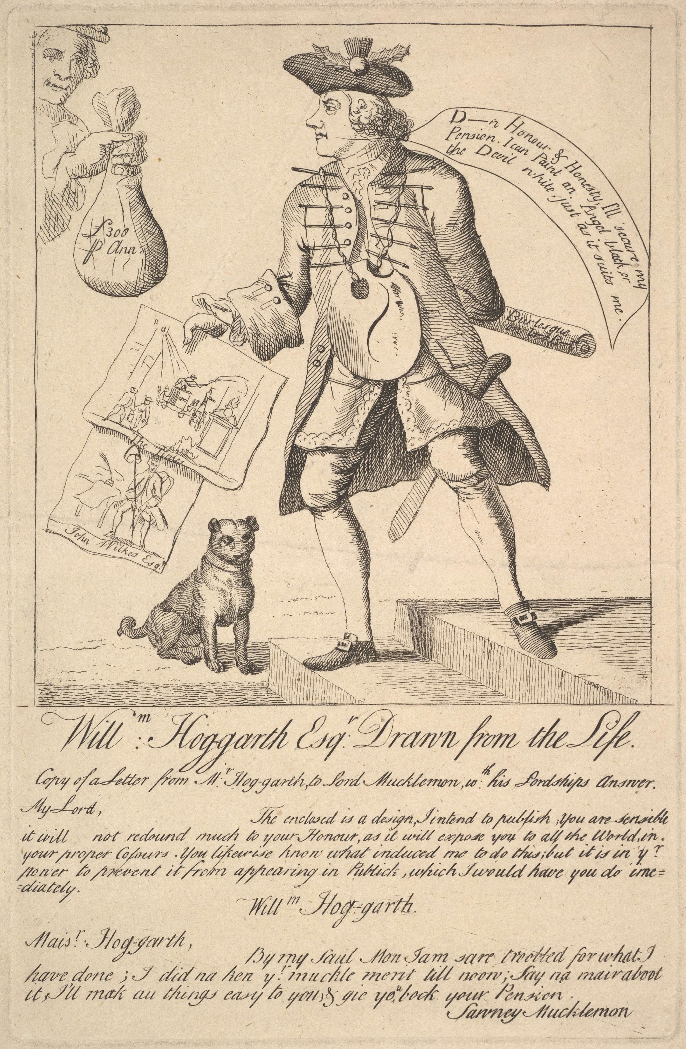 Print; Prints